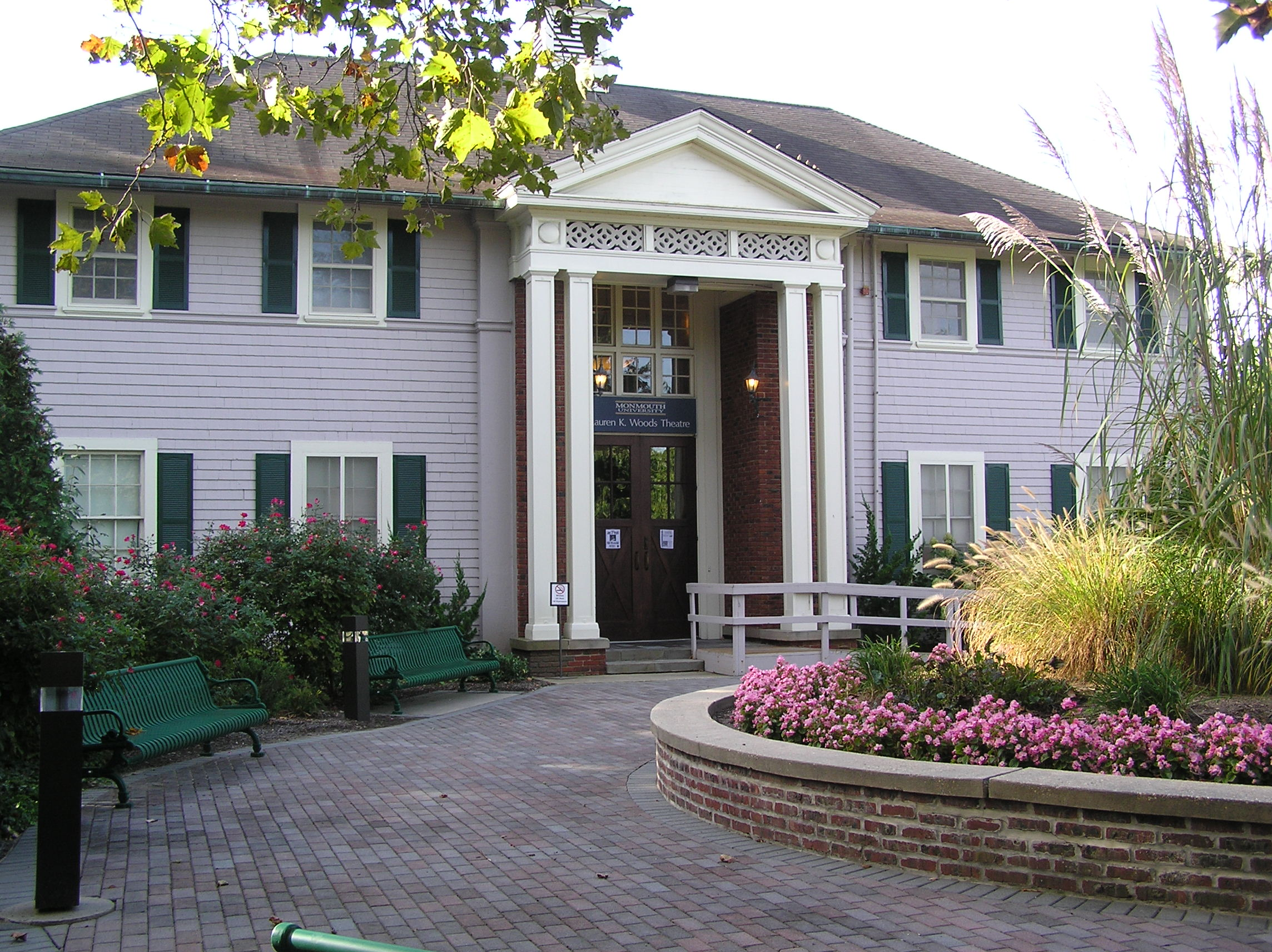 The Lauren K. Woods Theatre on the Monmouth University campus, this once was the carriage house for Murry and Leonie Guggenheim of the famed Guggenheim family. Located at 370 Cedar Avenue in Long Branch, Monmouth County, New Jersey, the carriage house was donated by the Murry and Leonie Guggenheim Foundation to Monmouth College along with the Guggenheim estate located at the corner of Norwood and Cedar Avenues in neighboring West Long Branch.